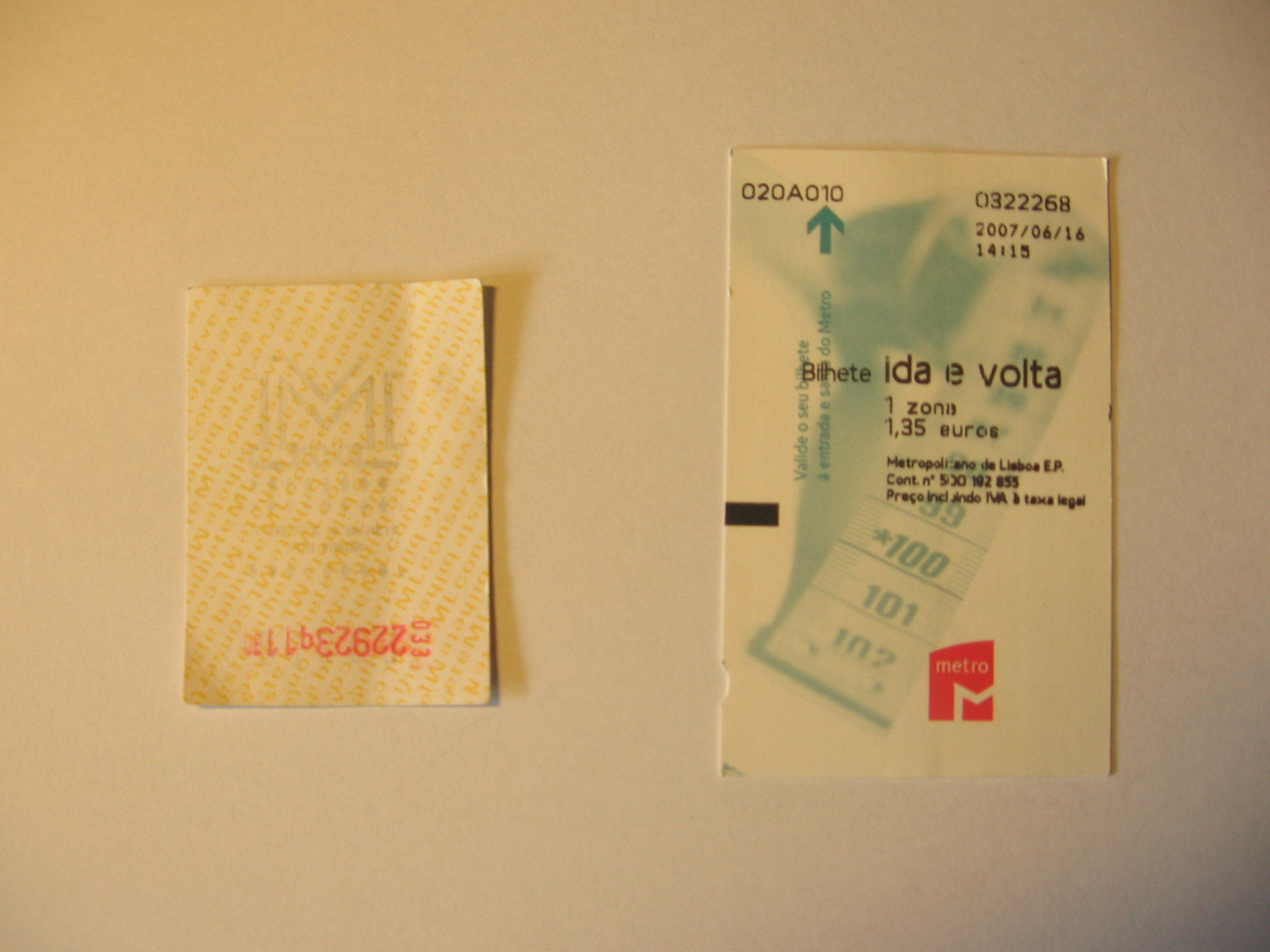 Tickets of Lisbon Metro; the one on the left is older, the one on right is the current ticket.